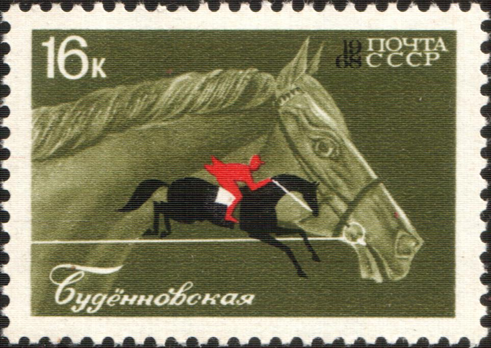 USSR stamp: Budyonny Horse and Show Jumping. Series: Soviet Horse Breeding and Riding